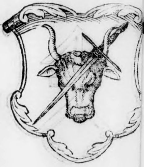 Pomian Coat of Arms by Ambrosius Marcus de Nissa, about 1572